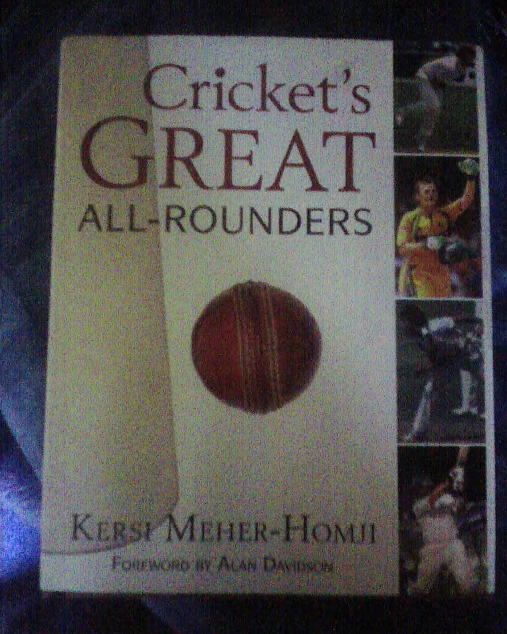 Cricket's Great Allrounders by Kersi Meher-Homji